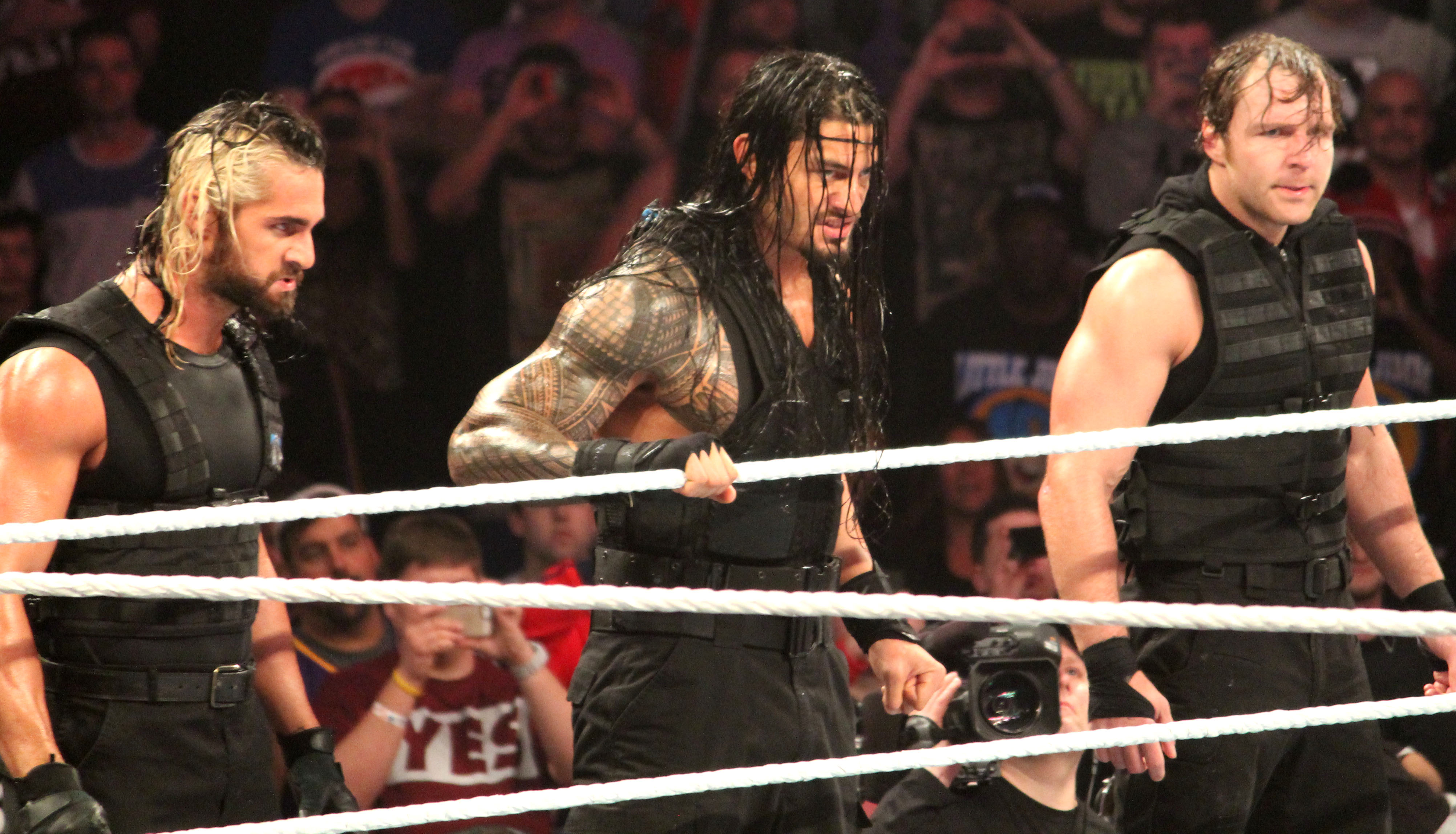 The Shield (from left to right: Seth Rollins, Roman Reigns and Dean Ambrose) during a WWE Raw event on April 7, 2014. Cropped and boosted contrast from the original.